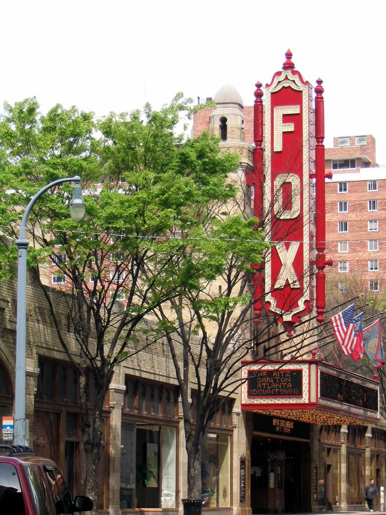 Fox Theatre